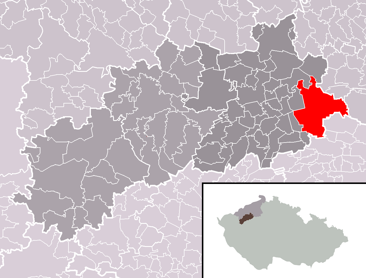 Location of Peruc market town within Louny District and administrative area of Louny as a Municipality with Extended Competence.